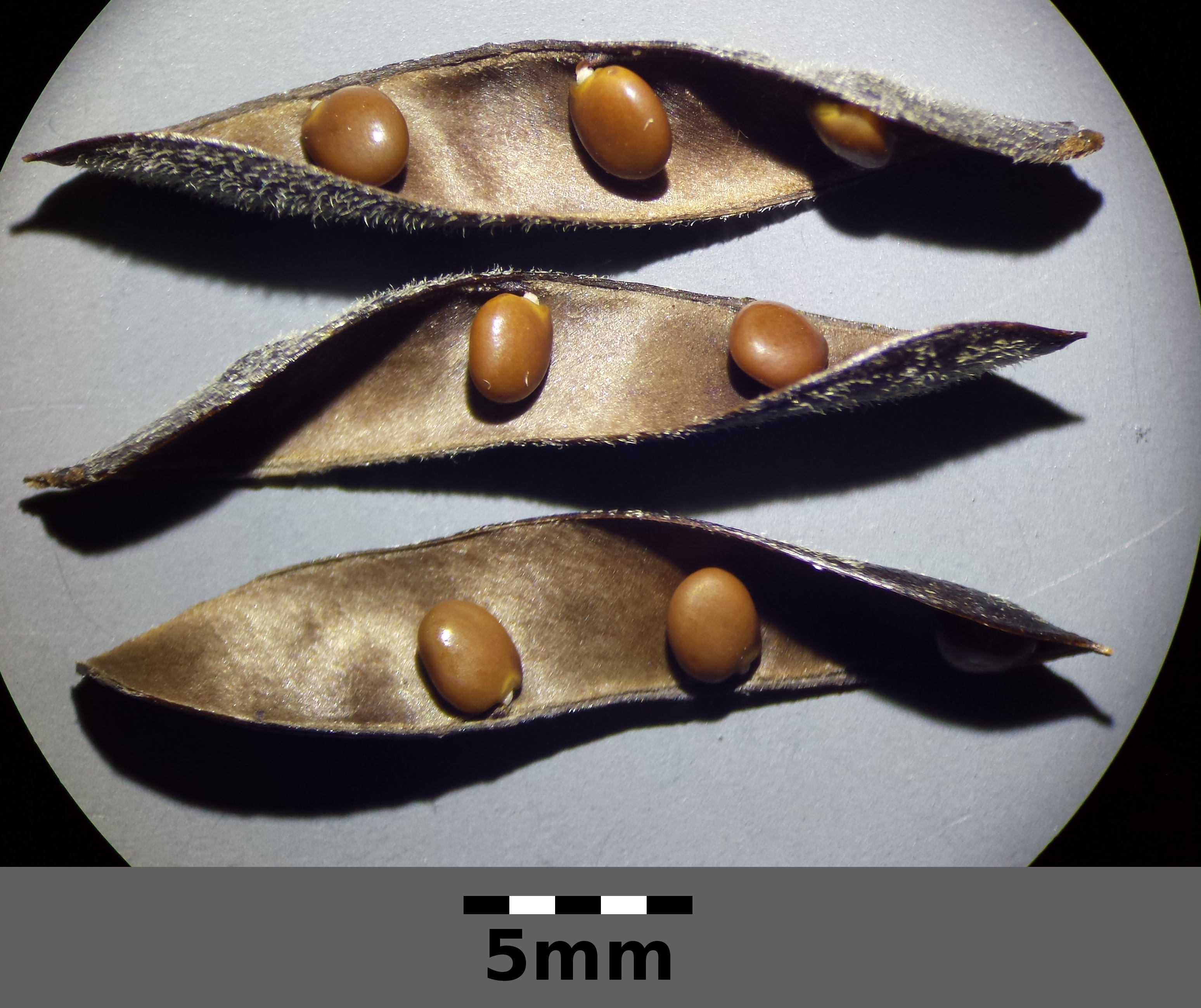 Opened legume fruits with seeds Taxon: Cytisus nigricans (sensu Fischer et al. EfÖLS 2008 ISBN 978-3-85474-187-9) Location: west slope of Bisamberg, district Korneuburg, Lower Austria - ca. 300 m a.s.l. Habitat: rock steppe (Flysch)